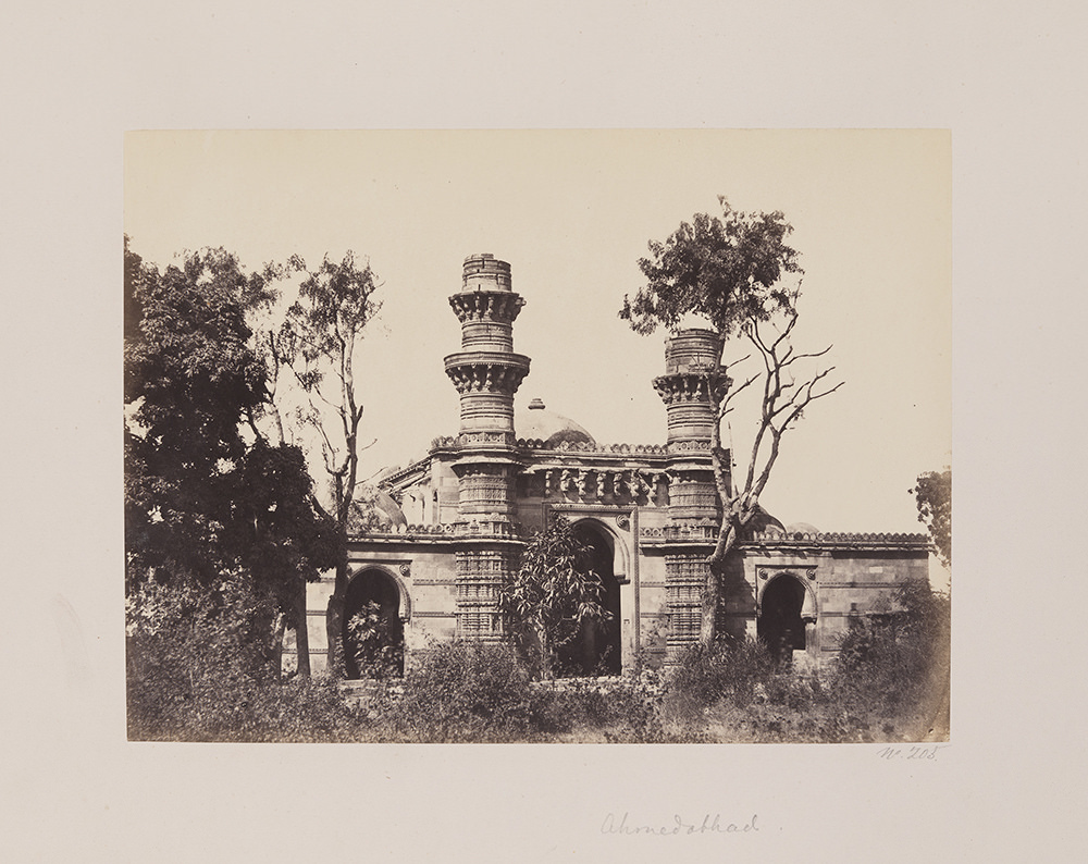 Title: Ahmedabhad. Alternative Title: [Achyut Bibi's Masjid and Tomb] Creator: William Johnson Date: ca. 1855-1862 Series: Photographs of Western India. Volume III. Scenery, Public Buildings, &c. Part of: Photographs of Western India Place: Ahmedabad, Gujarat, India Physical Description: 1 photographic print: albumen, part of 1 volume (104 albumen prints); 20 x 26 cm on 35 x 42 cm mount File: vault_ag2002_1407x_3_205_ahmedabhad_opt.jpg Rights: Please cite Southern Methodist University, Central University Libraries, DeGolyer Library when using this image file. A high-quality version of this file may be obtained for a fee by contacting . For more information and to view the image in high resolution, see: View Europe, India, and Asia: Photographs, Manuscripts, and Imprints